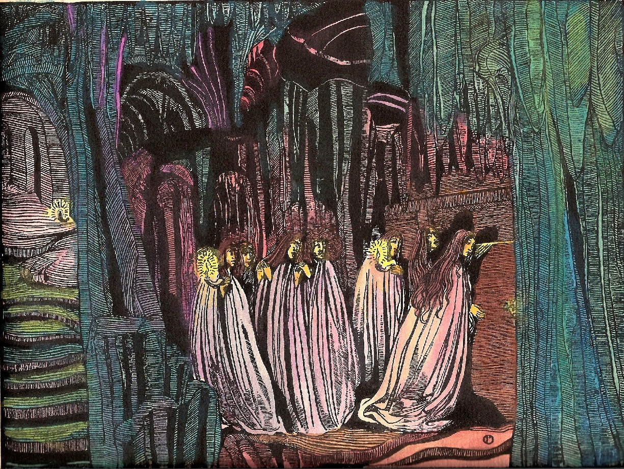 1896 woodcut by Belgian artist Doudelet